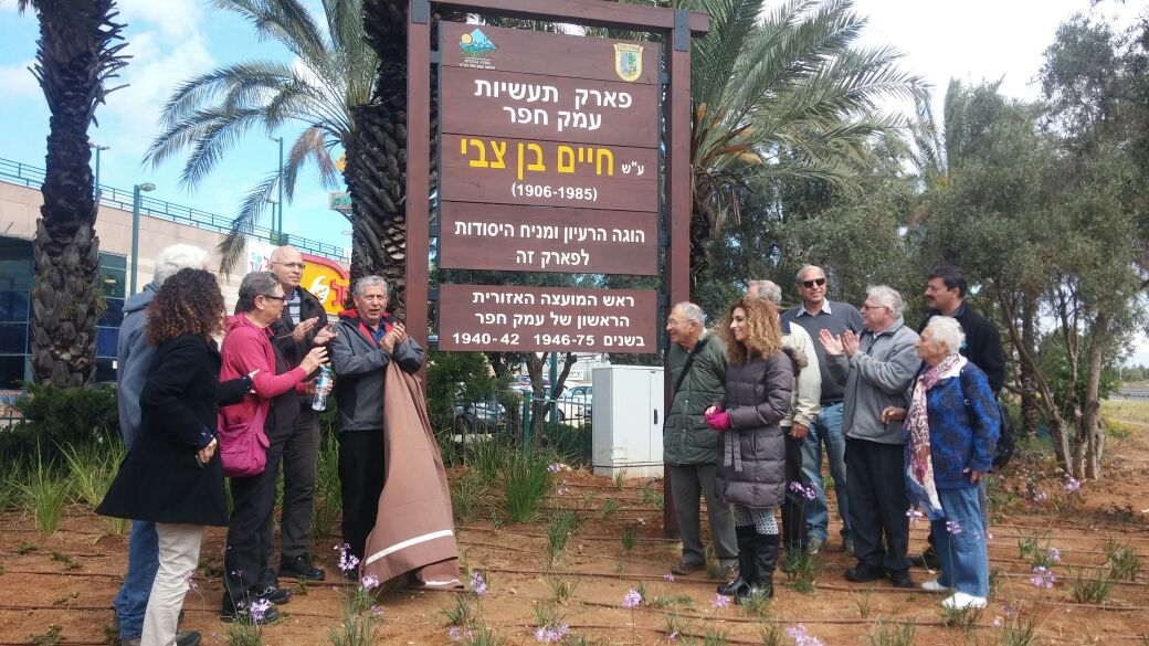 Ranny Idaan is uncovering the sign of the industrial aria, called after Chaym Ben-Zvi.